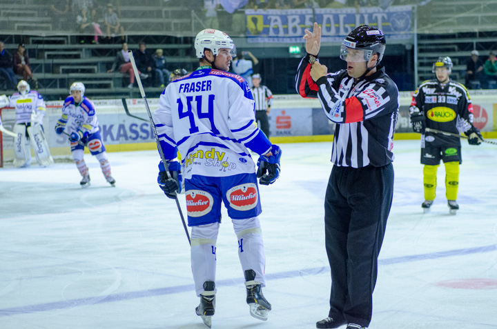 Dornbirn vs VSV in EBEL